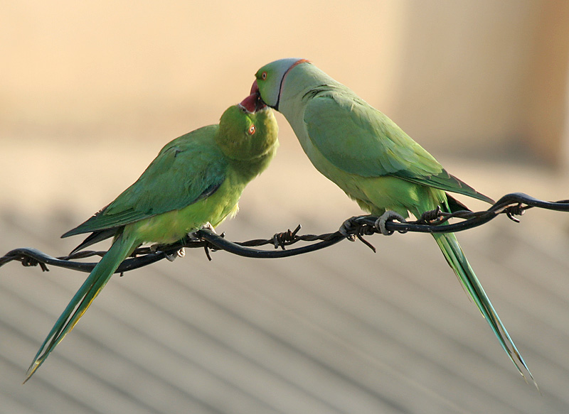 Rose-ringed Parakeet Psittacula krameri at/ near Hodal in Faridabad District of Haryana, India.